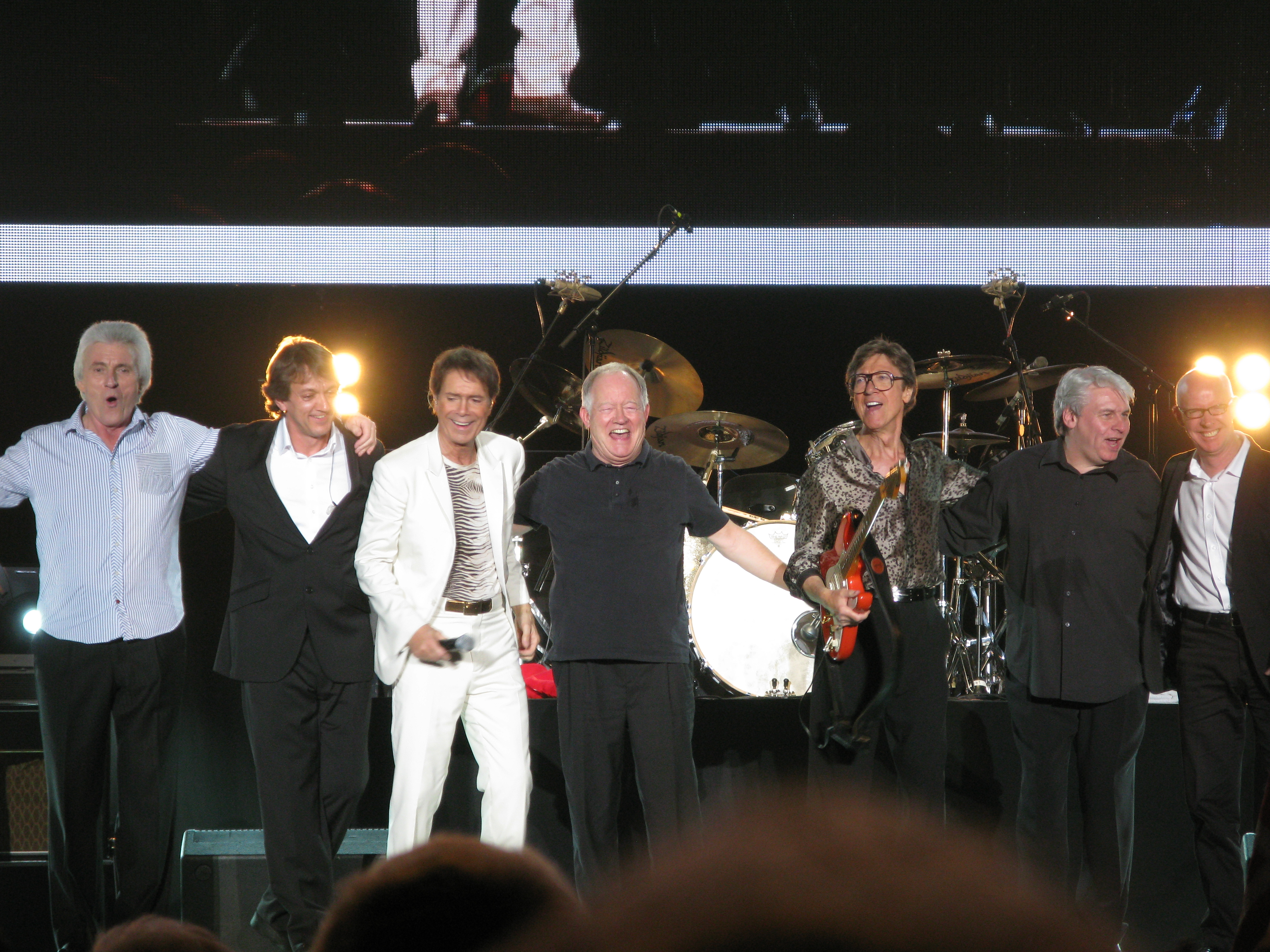 Cliff Richard and The Shadows 50th Anniversary final U.K. concert (encore) at the Wembley Arena, London, England, Great Britain